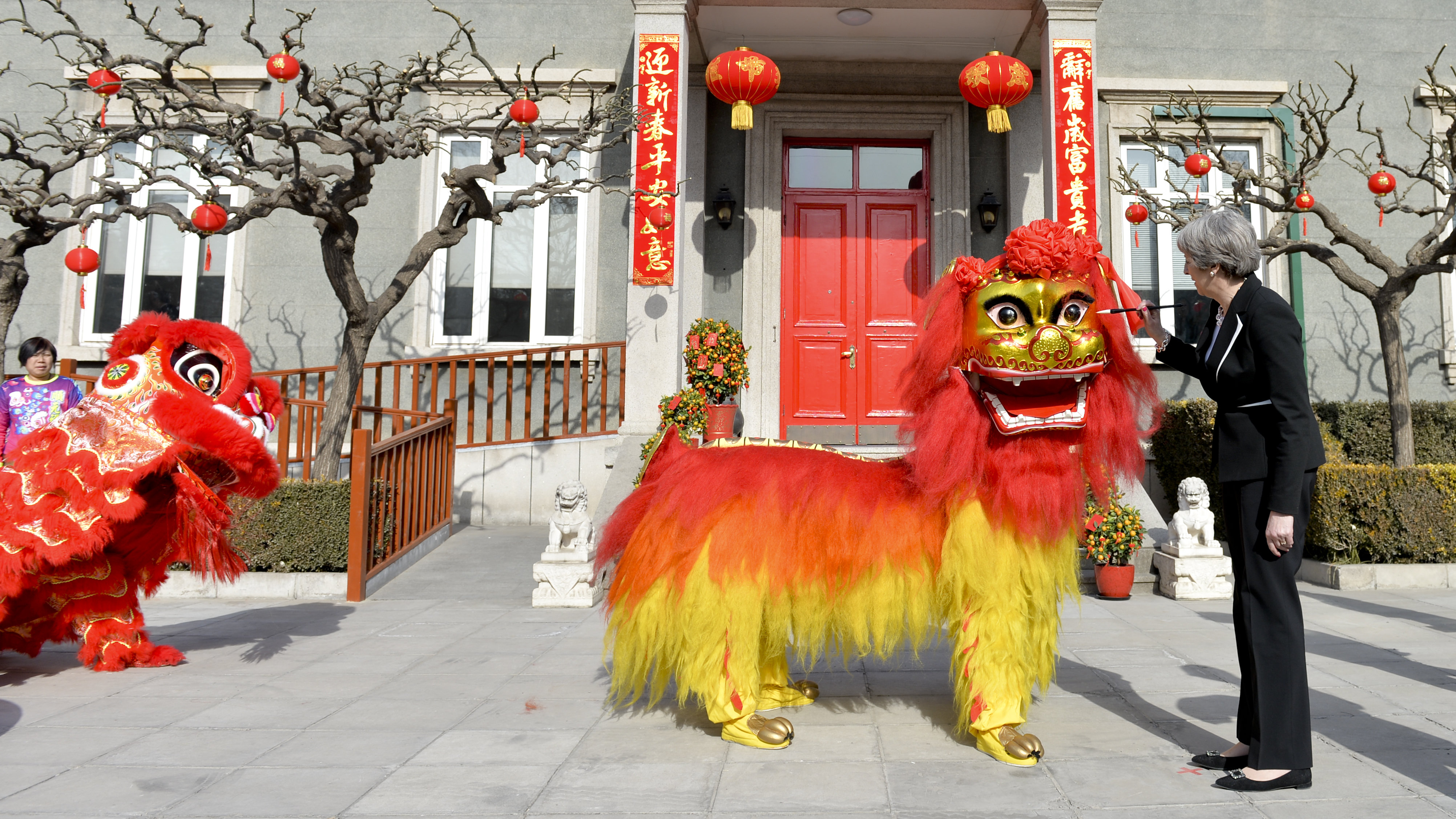 PM in China